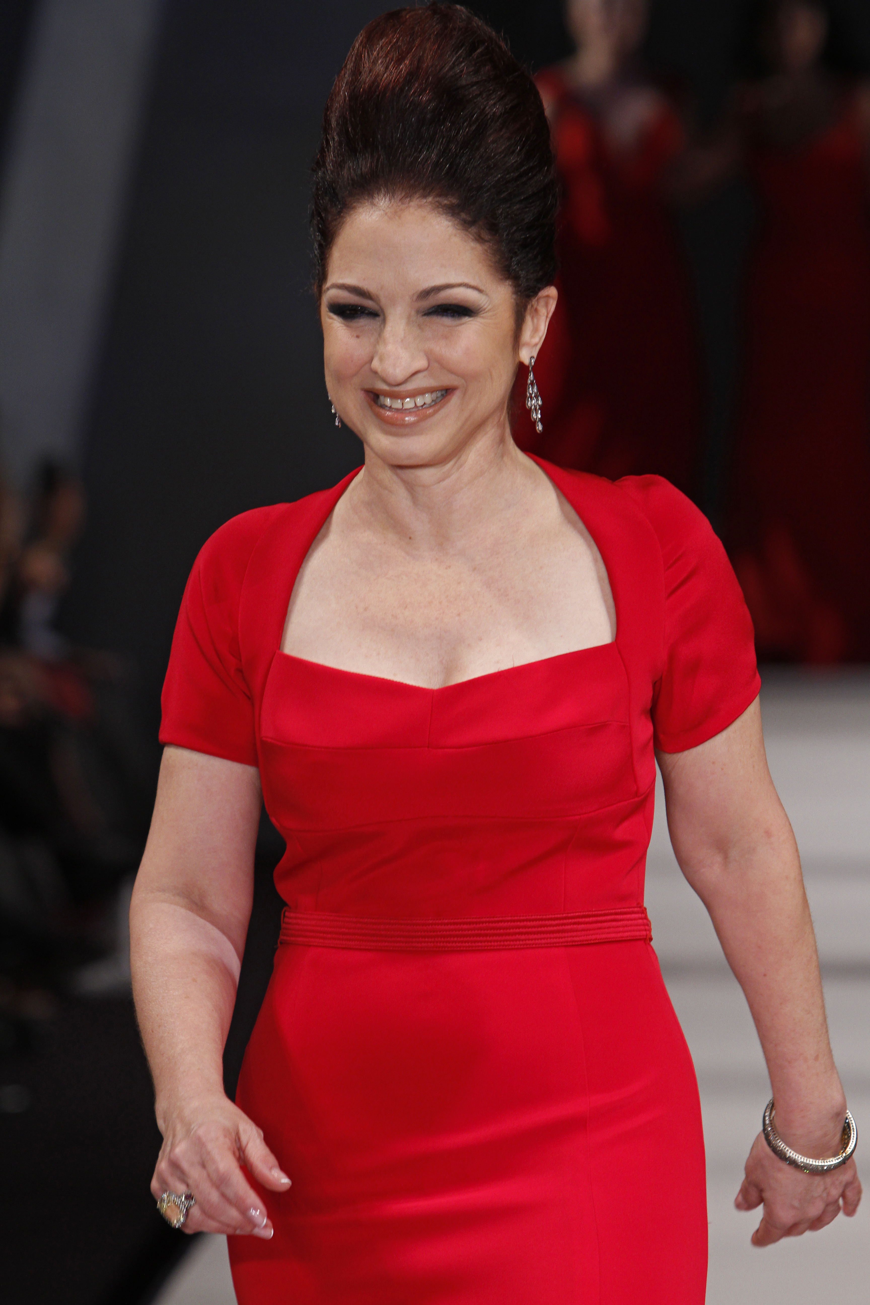 Photo by Dan&Corina Lecca